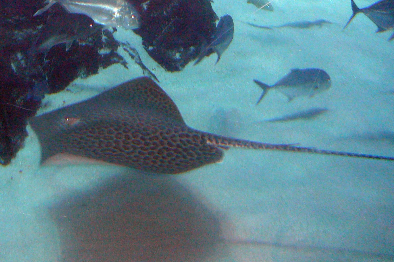 Honeycomb whipray (Himantura leoparda) at the Georgia aquarium.